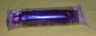 Army rations; starch syrup sweetener (contains Starch syrup, sugar, orange juice)戦闘糧食 I型 オレンジスプレッド